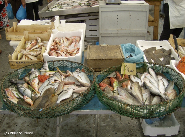 Fish at the San Benedetto market in Cagliari.